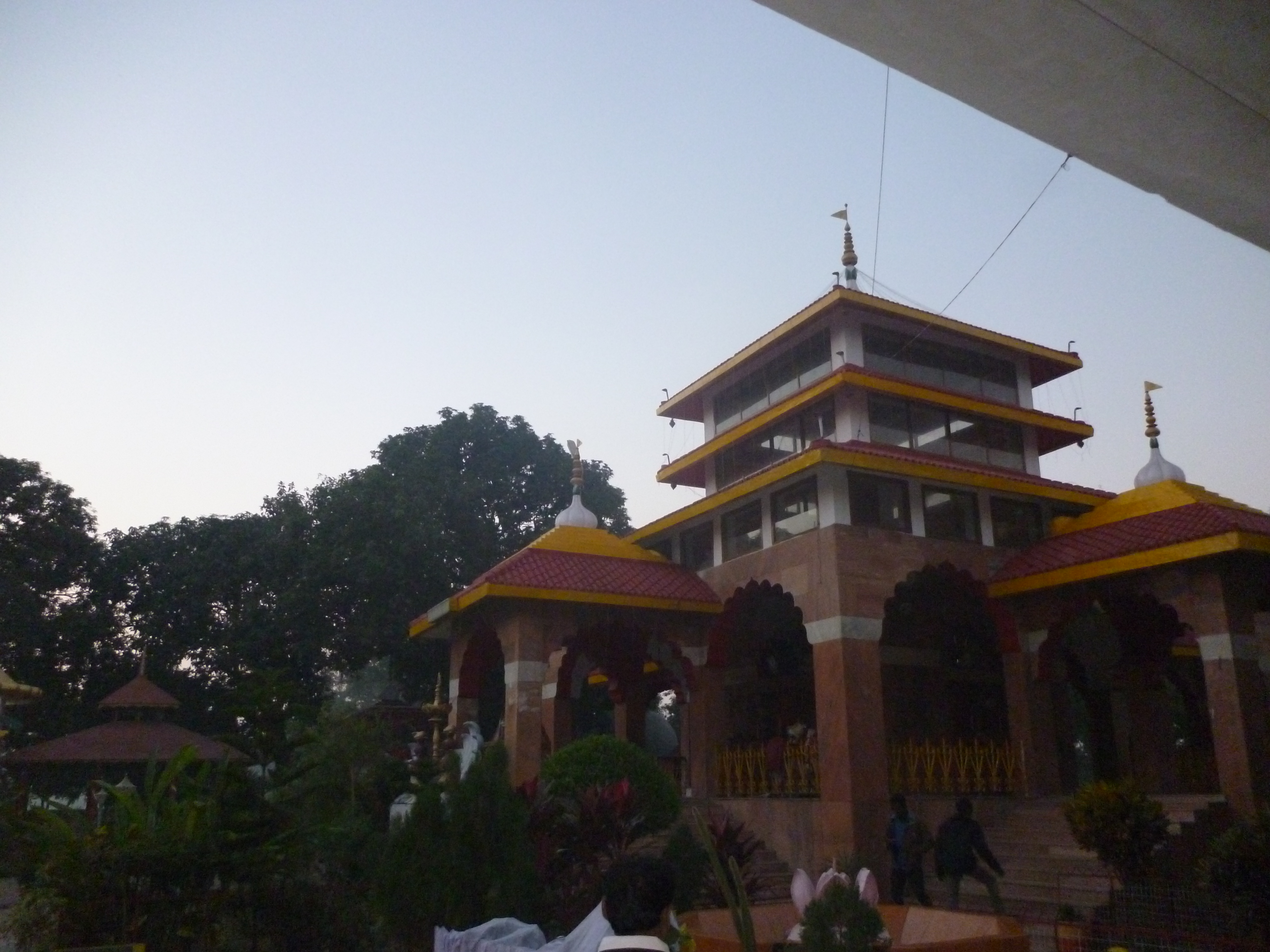 Matsyagandha Temple in Saharsa Town